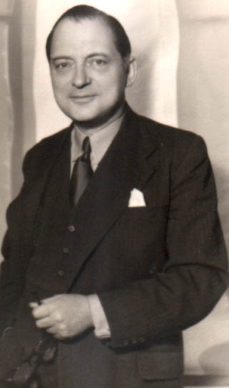 Portrait photo of Dr. C.W. Dankwort